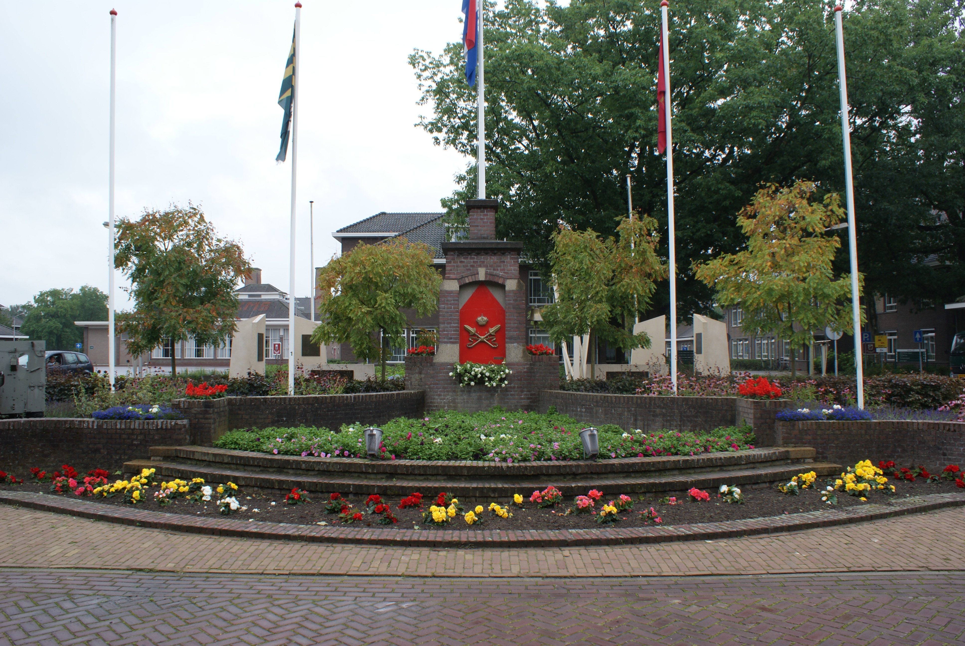 Van Horne Barracks,Royal Military School